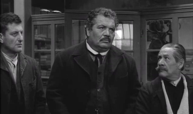 screenshot from I compagni (1963)